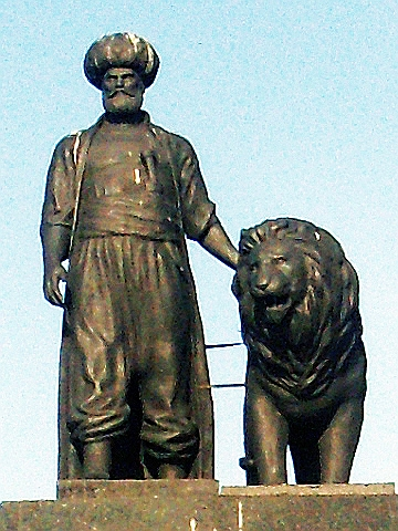 Memorial statue of Cezayirli Gazi Hasan Pasha in Kasımpaşa quarter, Beyoğlu district, Istanbul